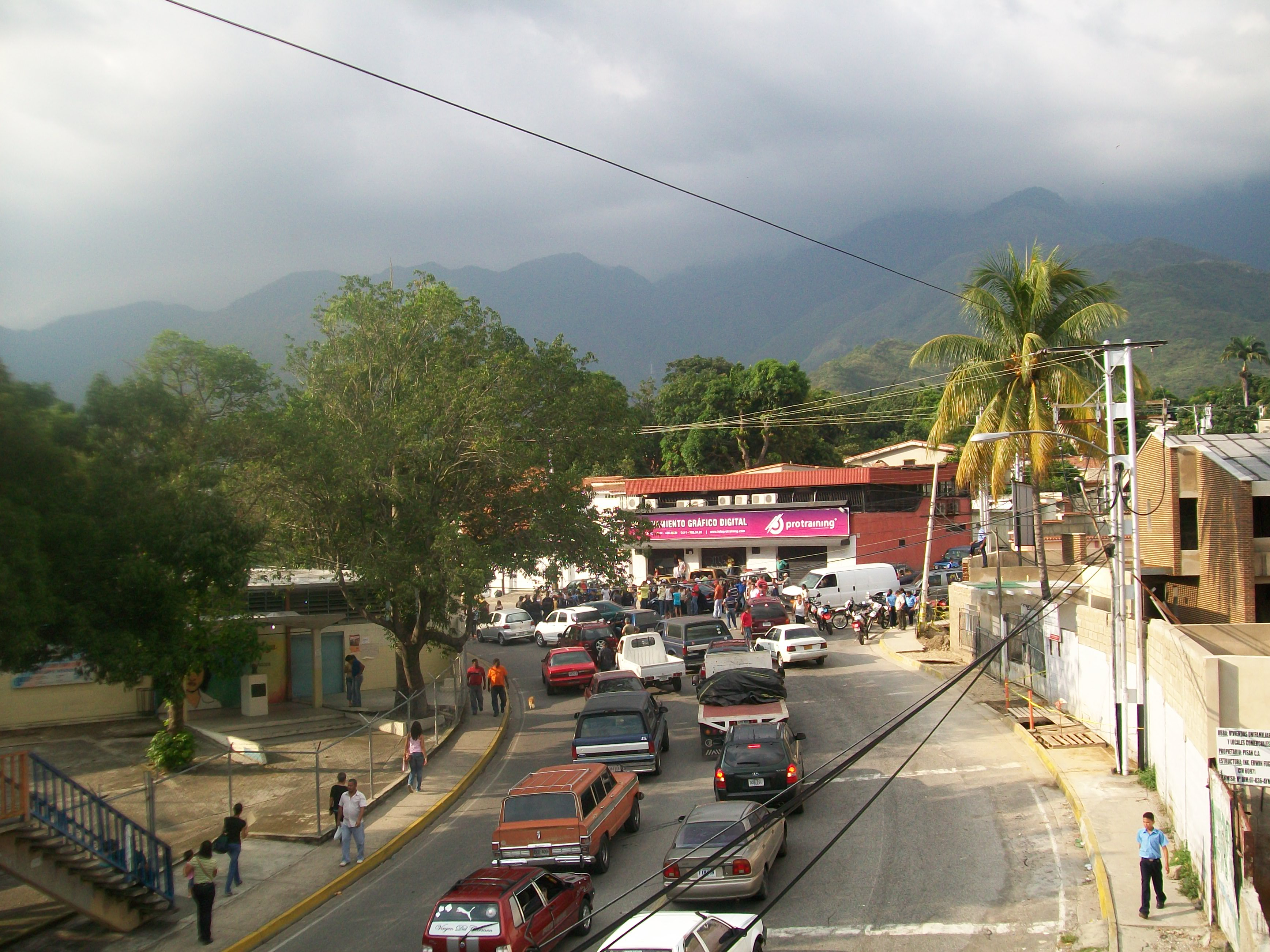 Neighborhood protest on the Delicias Ave due to continuous lack of power and water supply. Henri Pittier National Park in the background.